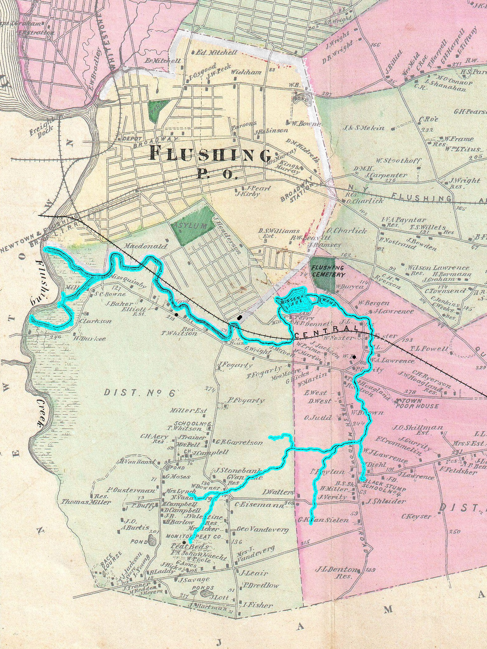 A scarce example of Fredrick W. Beers’ map of Flushing and College Point, Queens, New York. published in 1873. Outlined in blue is the former Kissena Creek, which flowed east, north, then west towards Flushing Creek. Highlighted in black is the former Central Railroad of Long Island, which ran east from Flushing to Garden City, Long Island.